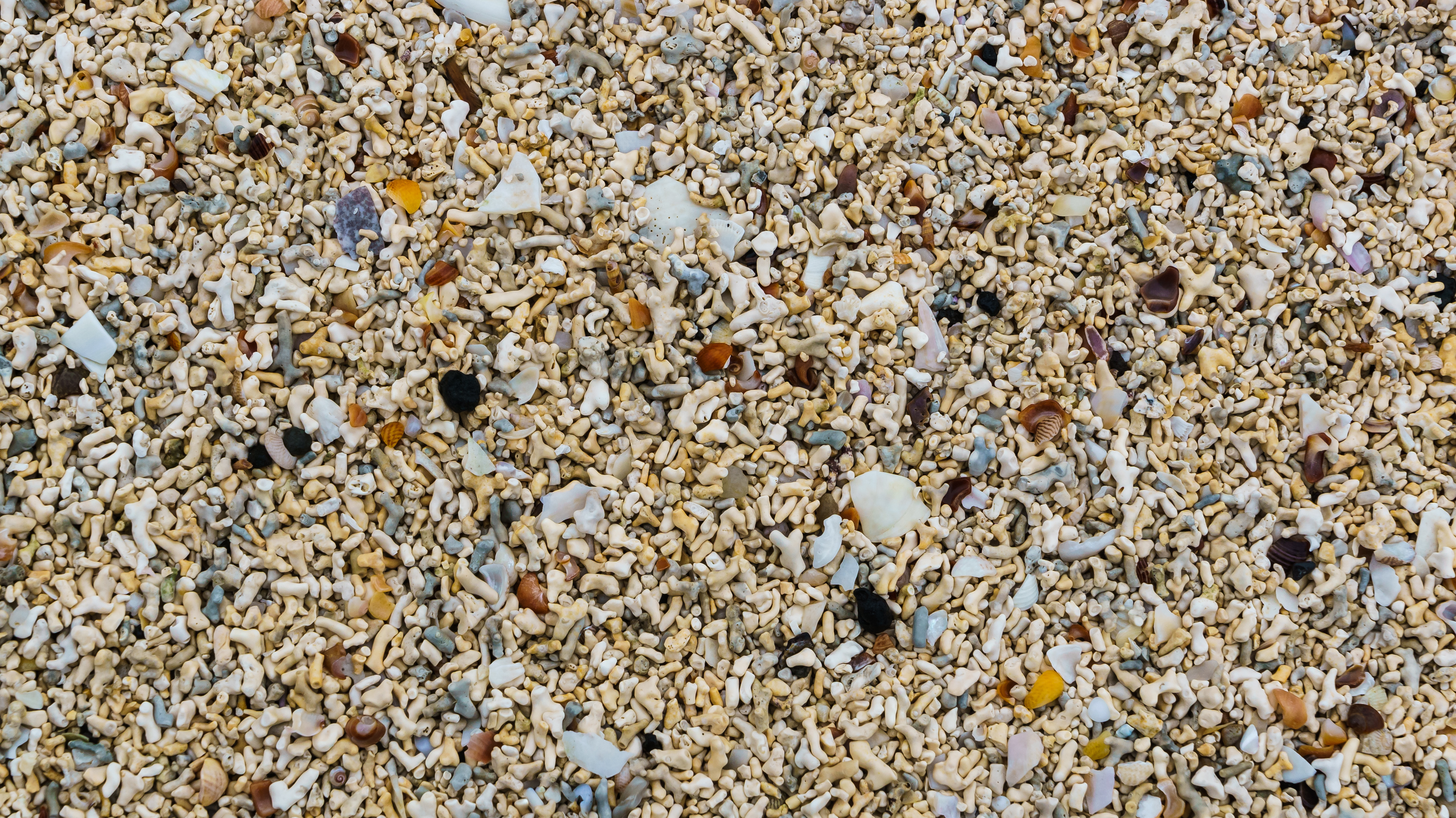 A close-up of the coral beach, near Claigan, Isle of Skye. The "coral" is actually the remains of a calcified seaweed called maerl.